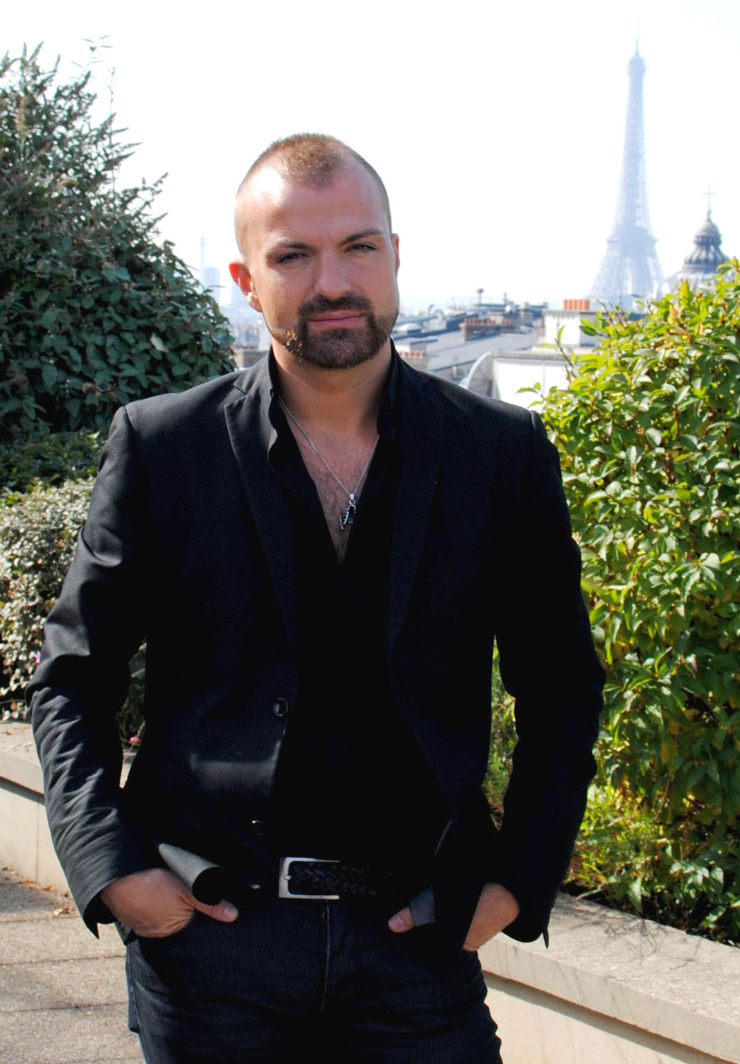 Portrait of haute couture designer Julien Fournie